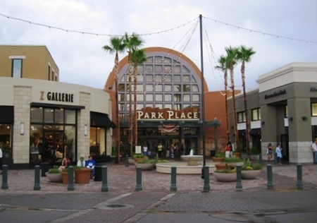 Main entrance of Park Place. This arch-shaped exerior was part of a $1.1 million renovation of the shopping mall, completed in 2001. Photo by Karen Funk Blocher, 2005.